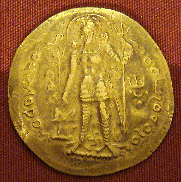 Indo-Sassanian coinage. British Museum. Personal photograph 2006.